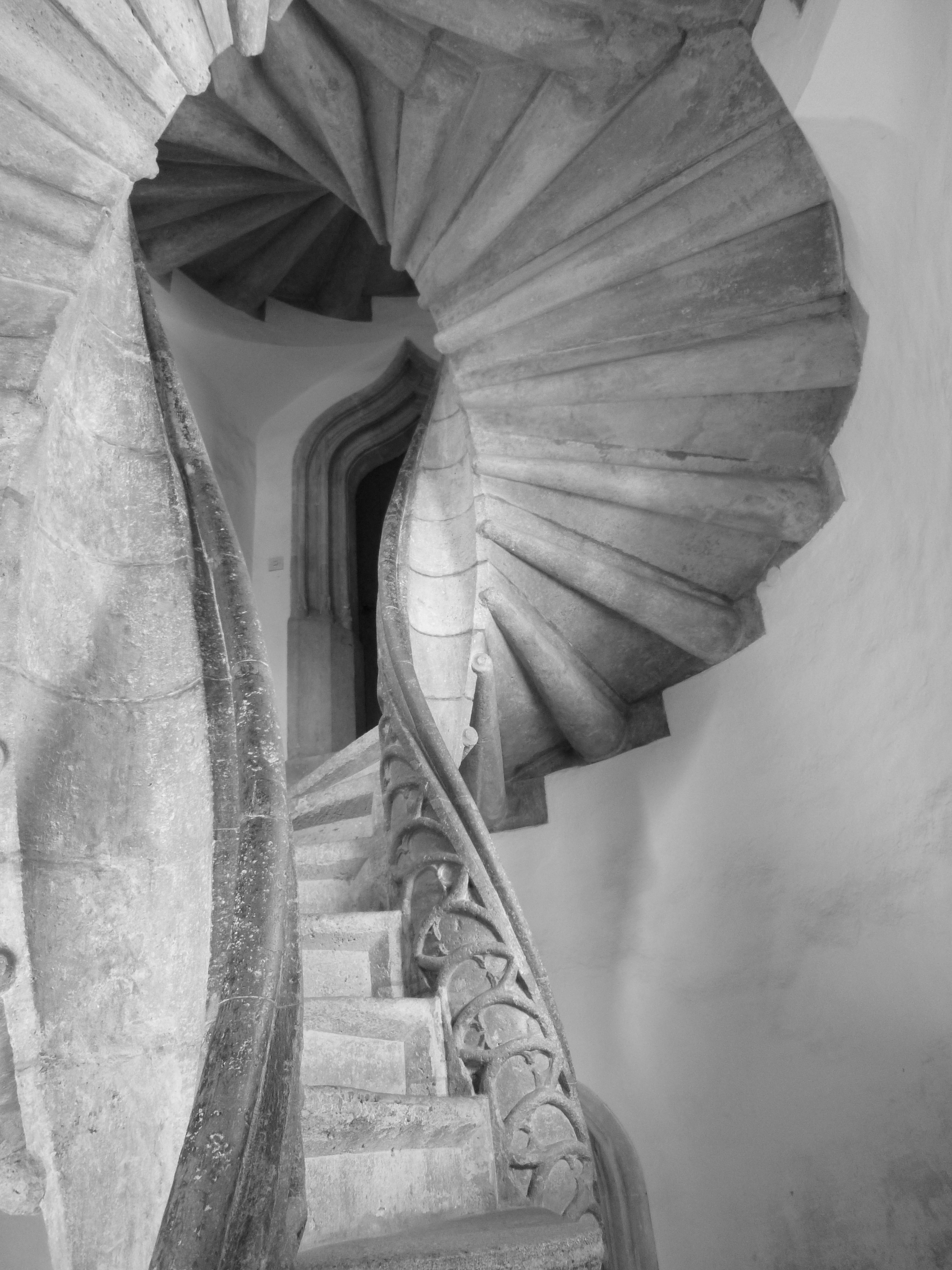 Double spiral staircases in Grazer Burg, Styria, Austria